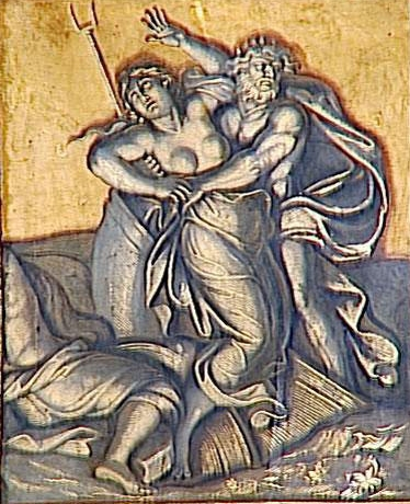 Pluto Abducting Persephone, with Pluto holding his bident